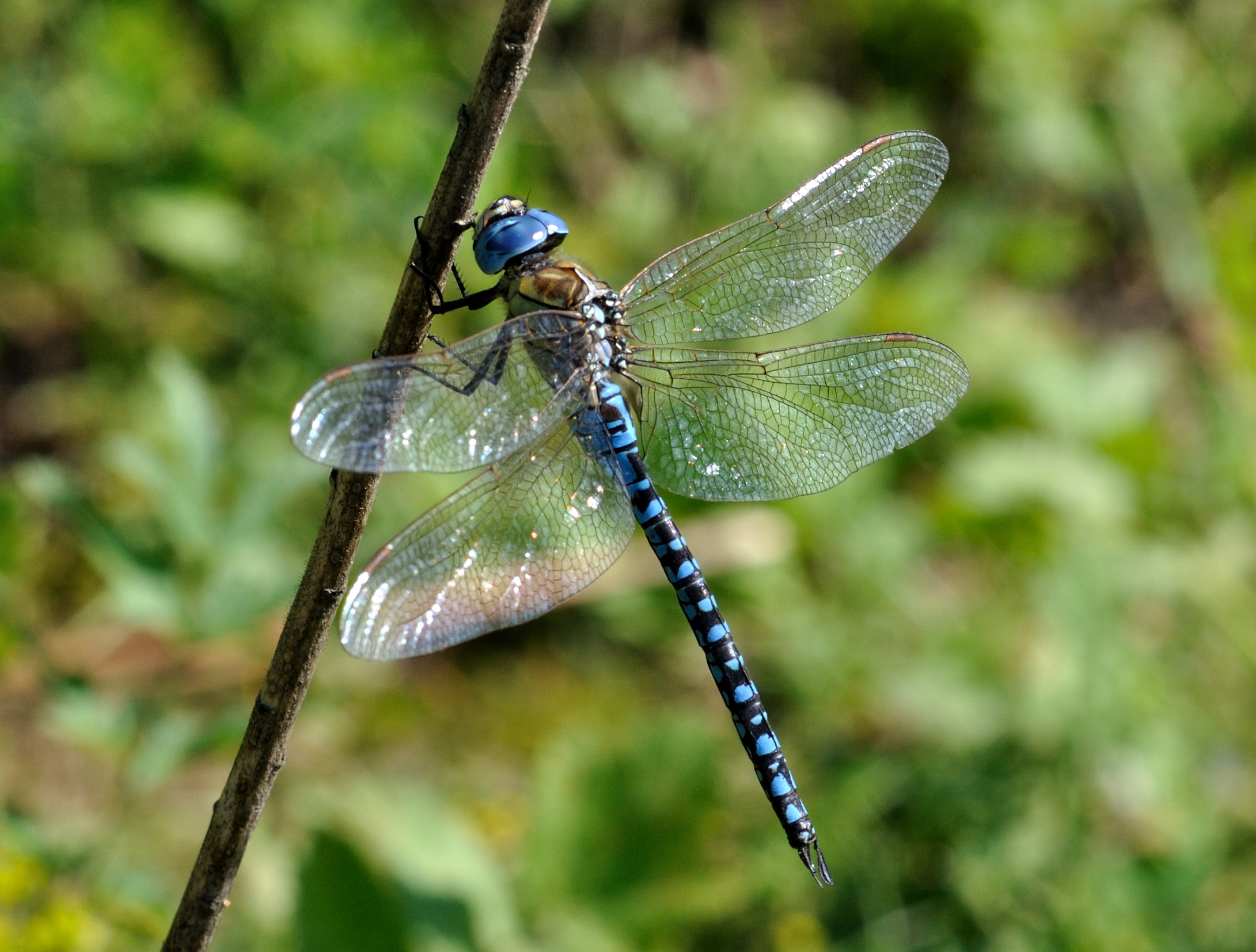 Male Southern Migrant Hawker (Aeshna affinis) near the old airstrip, Frankfurt, Germany.